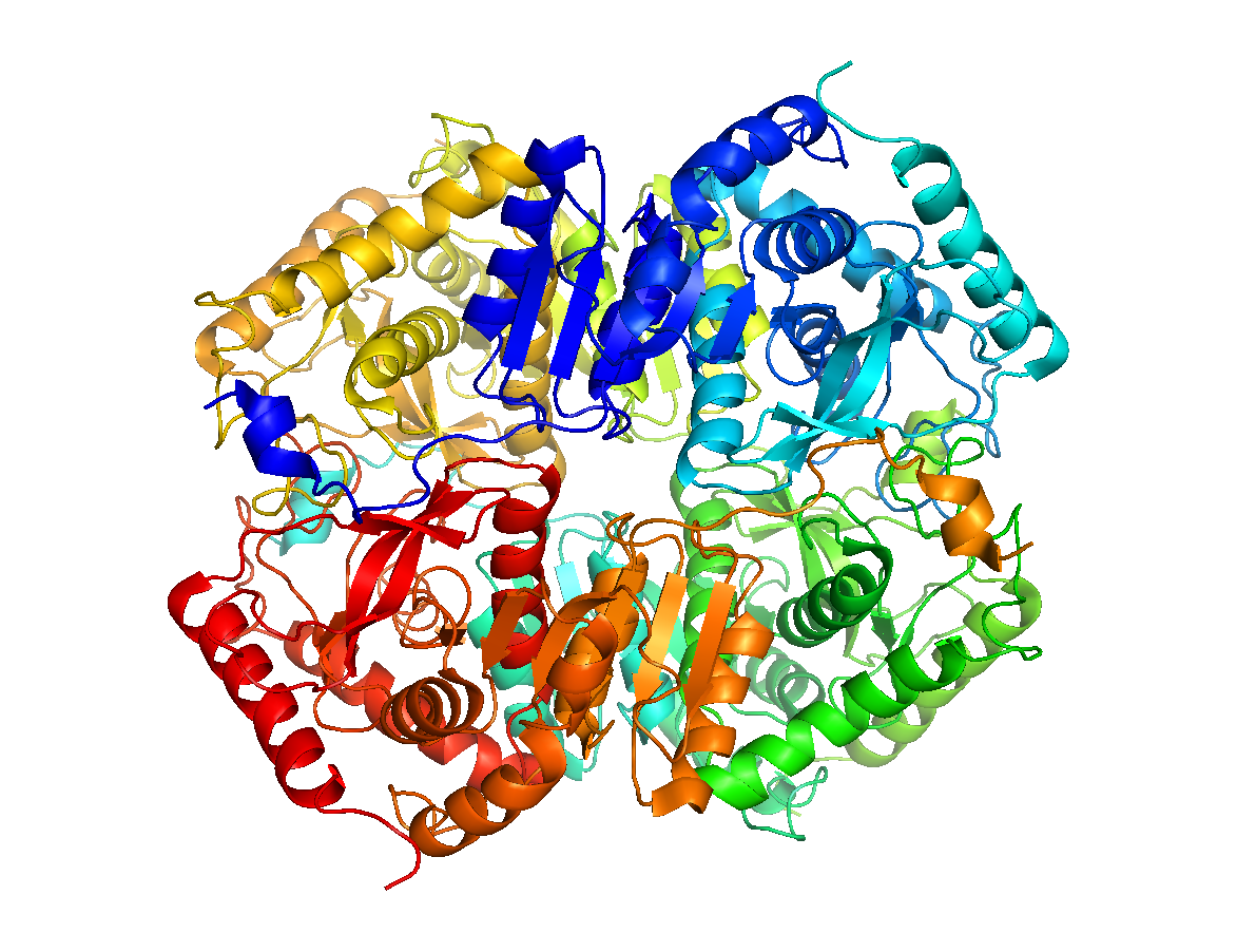 Crystal structure of C-lactate dehydrogenase